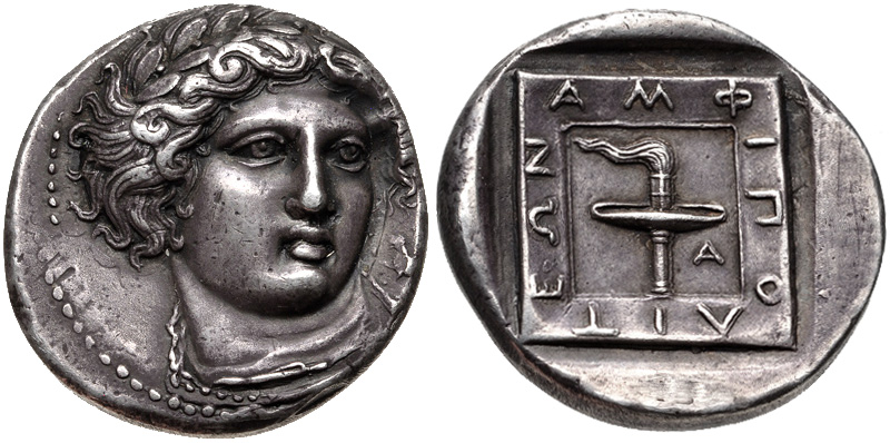 MACEDON, Amphipolis. 364/3 BC. AR “Tetradrachm” (21mm, 15.15 g, 1h). Masterpieces of Greek Coinage in the British Museum, Masterpieces of Greek Coinage Set #1. Manufactured by Becker Reproductions, Inc. (Peter Rosa), circa 1968. Head of Apollo facing slightly right, wearing laurel wreath, drapery around nec / AMΦ-IΠO-ΛIT-EΩN on raised linear square enclosing race torch; A to inner right; all within broad shallow incuse square.